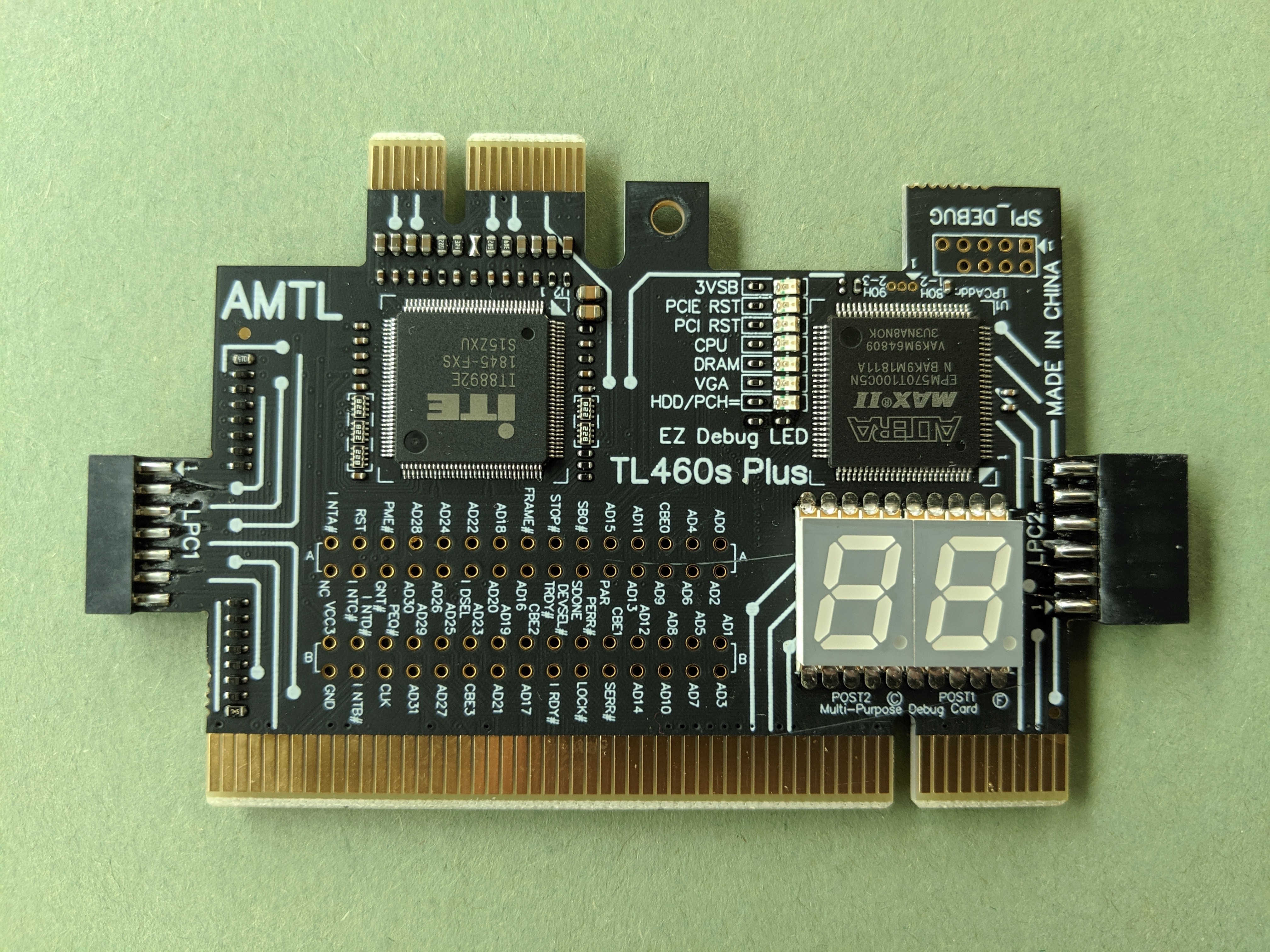 TL460s Plus POST card for displaying BIOS power-on self-test progress codes when plugged into an IBM PC compatible computer motherboard